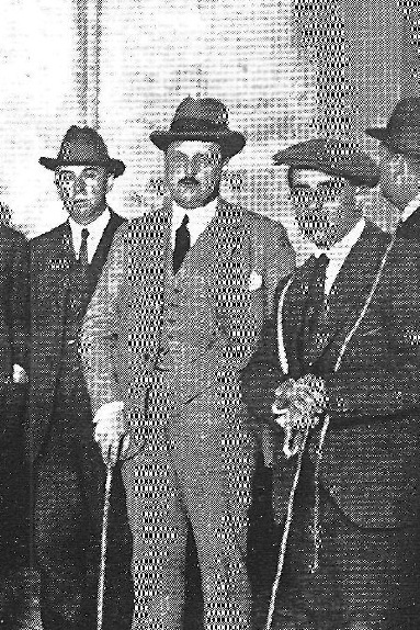 Andalusian landholders of Malaga province when fighting rural strike of 1919